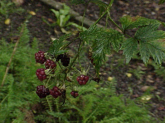 Species: Rubus laciniatus Family: Rosaceae Image No. 2